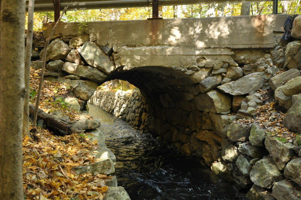 The bridge over the Great Falls Manufacturing Company Newichawannock Canal, joining Acton, Maine and Wakefield, New Hampshire.